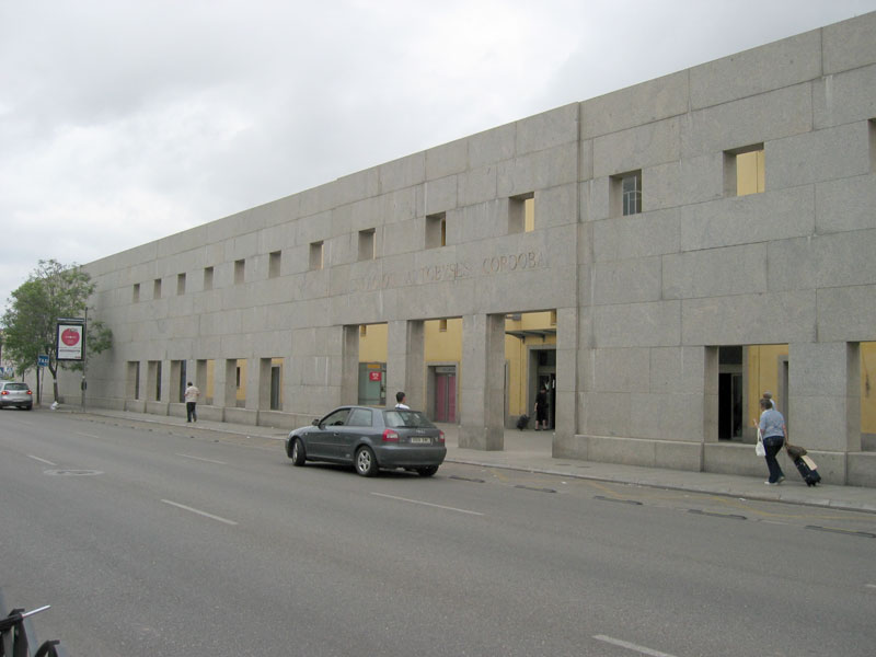 Bus station of Córdoba, Spain.